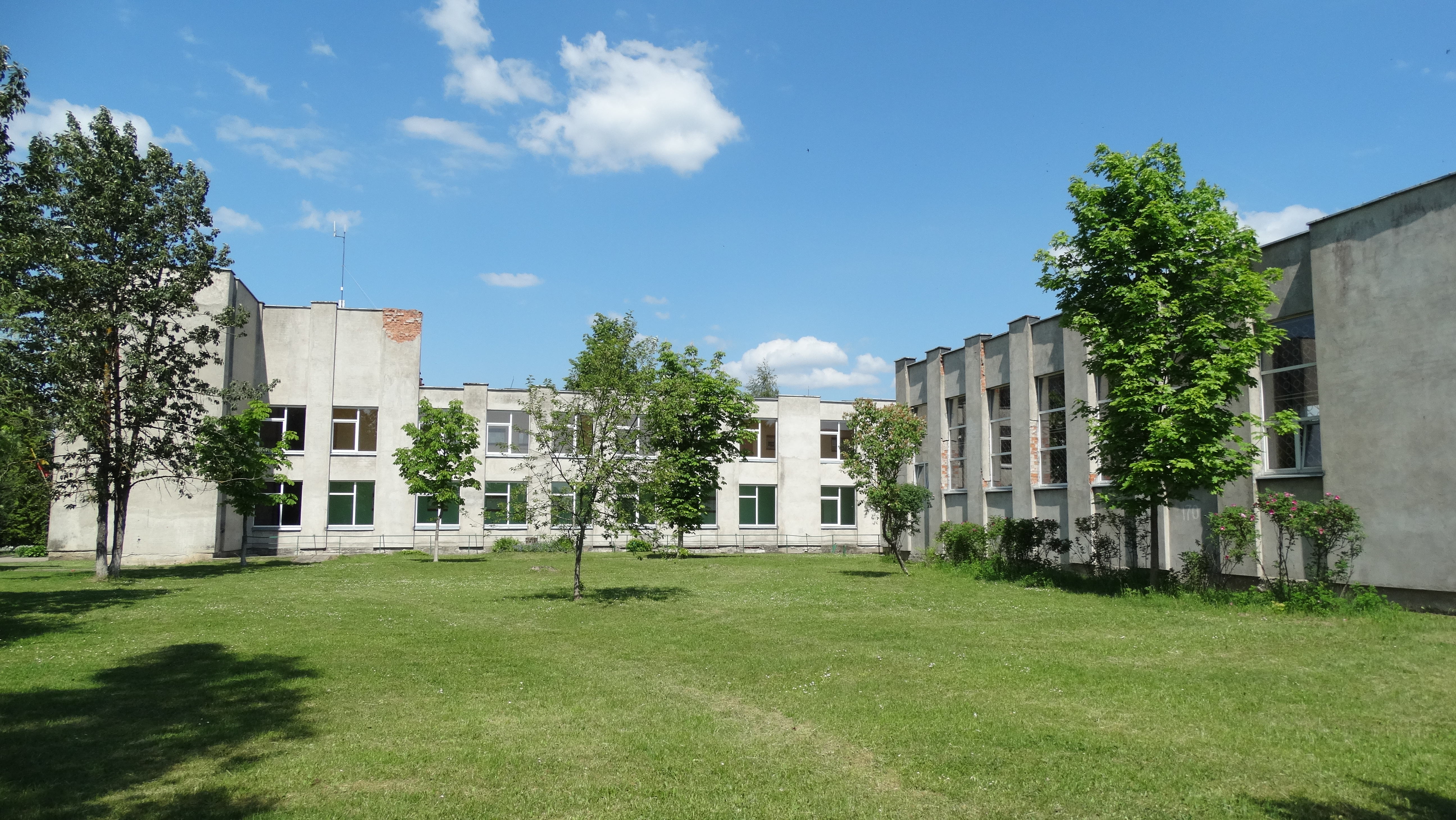 Secondary School of St Casimir, Medininkai, Vilnius District, Lithuania